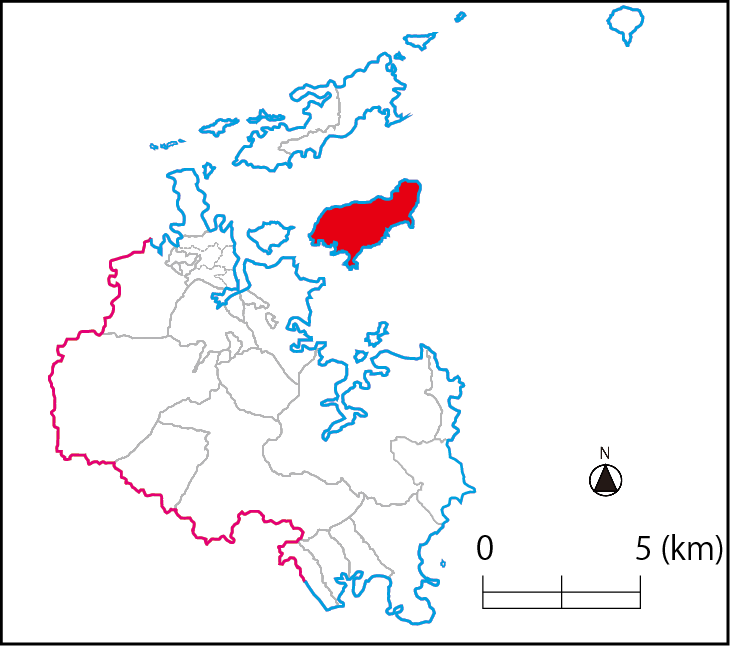 This is the map of Sugashima-cho, Toba, Mie, Japan.This map also indicates the Sugashima elementary school district.